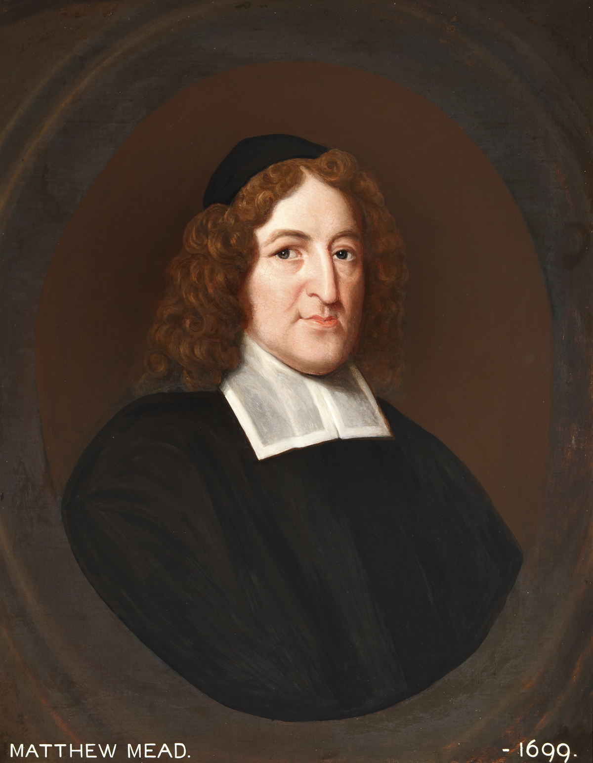 Depicted person: Matthew Mead (minister)